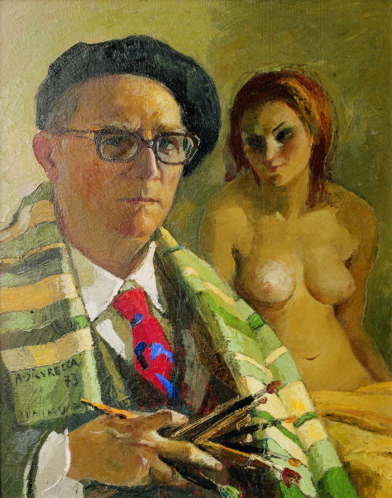 Antonio Sicurezza - Self portrait with fair model